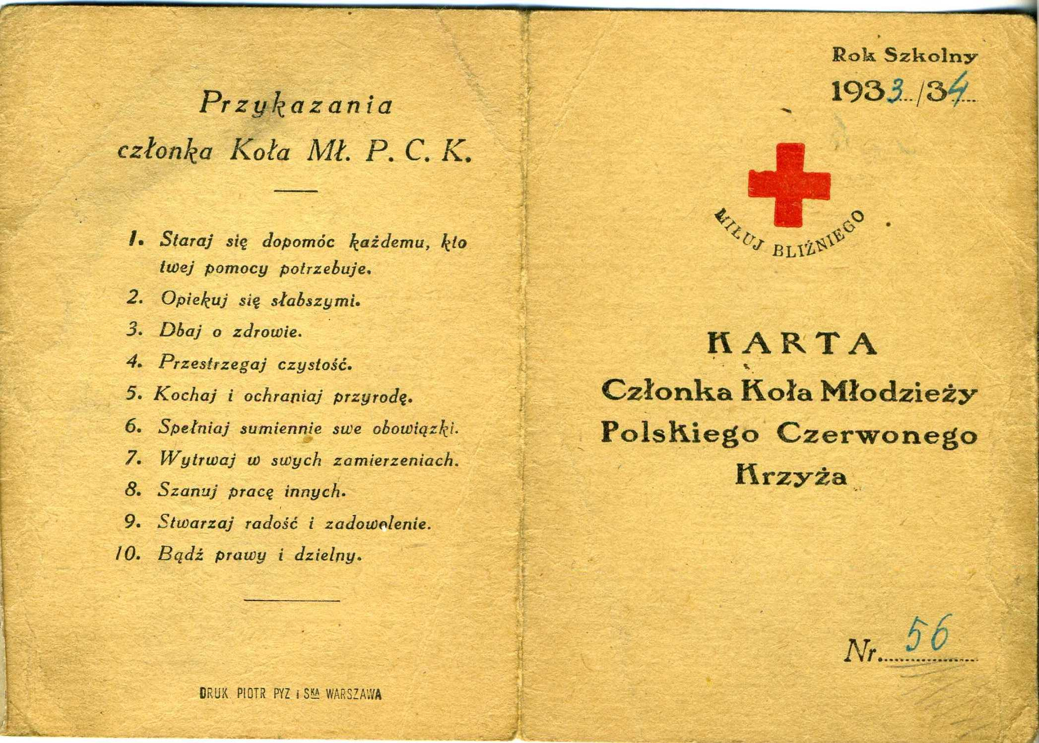 Membership card of the Polish Red Cross, issued in 1933 in Brześć nad Bugiem (Brest)